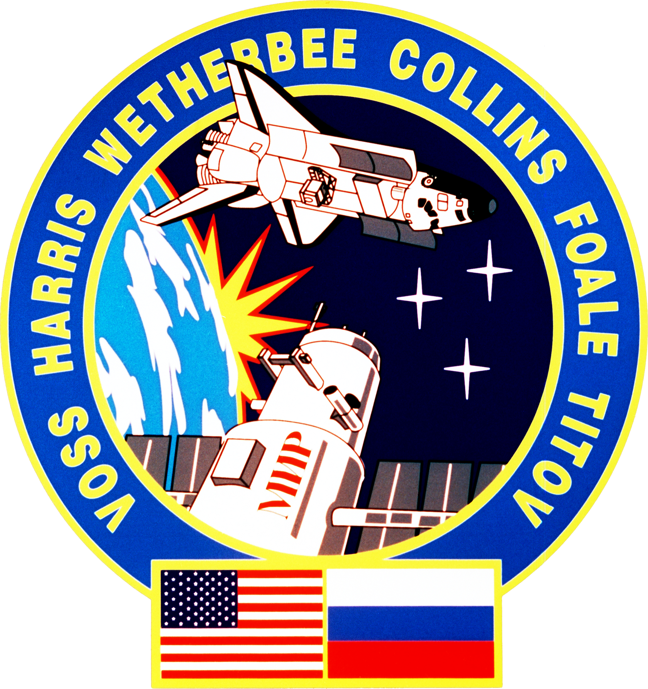 STS-63 Mission Insignia Designed by the crew members, the STS-63 crew patch depicts the orbiter maneuvering to rendezvous with Russia's Space Station Mir. The name is printed in Cyrillic on the side of the station. Visible in the Orbiter's payload bay are the commercial space laboratory Spacehab and the Shuttle Pointed Autonomous Research Tool for Astronomy (SPARTAN) satellite which are major payloads on the flight. The six points on the rising sun and the three stars are symbolic of the mission's Space Transportation System (STS) numerical designation. Flags of the United States and Russia at the bottom of the patch symbolize the cooperative operations of this mission.